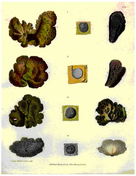 Lichens of the type eaten by John Frankin's men on their journey back from the Coppermine River.